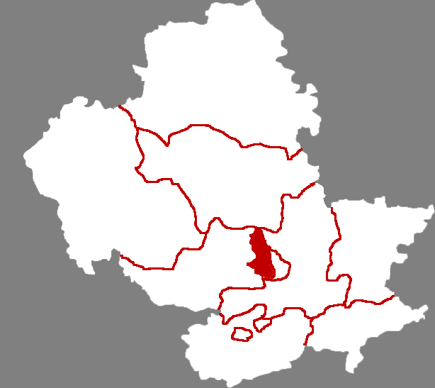 Location of Shuangluan district in Chengde City, China